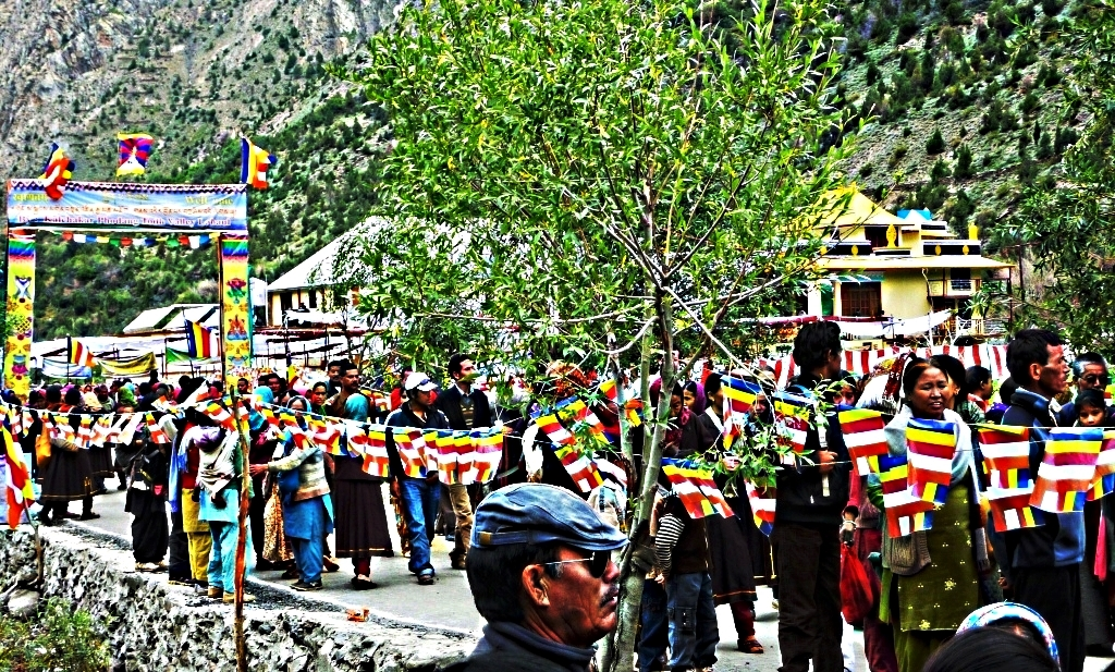 I took this photo on a trip through Lahaul to Ladakh in August 2010